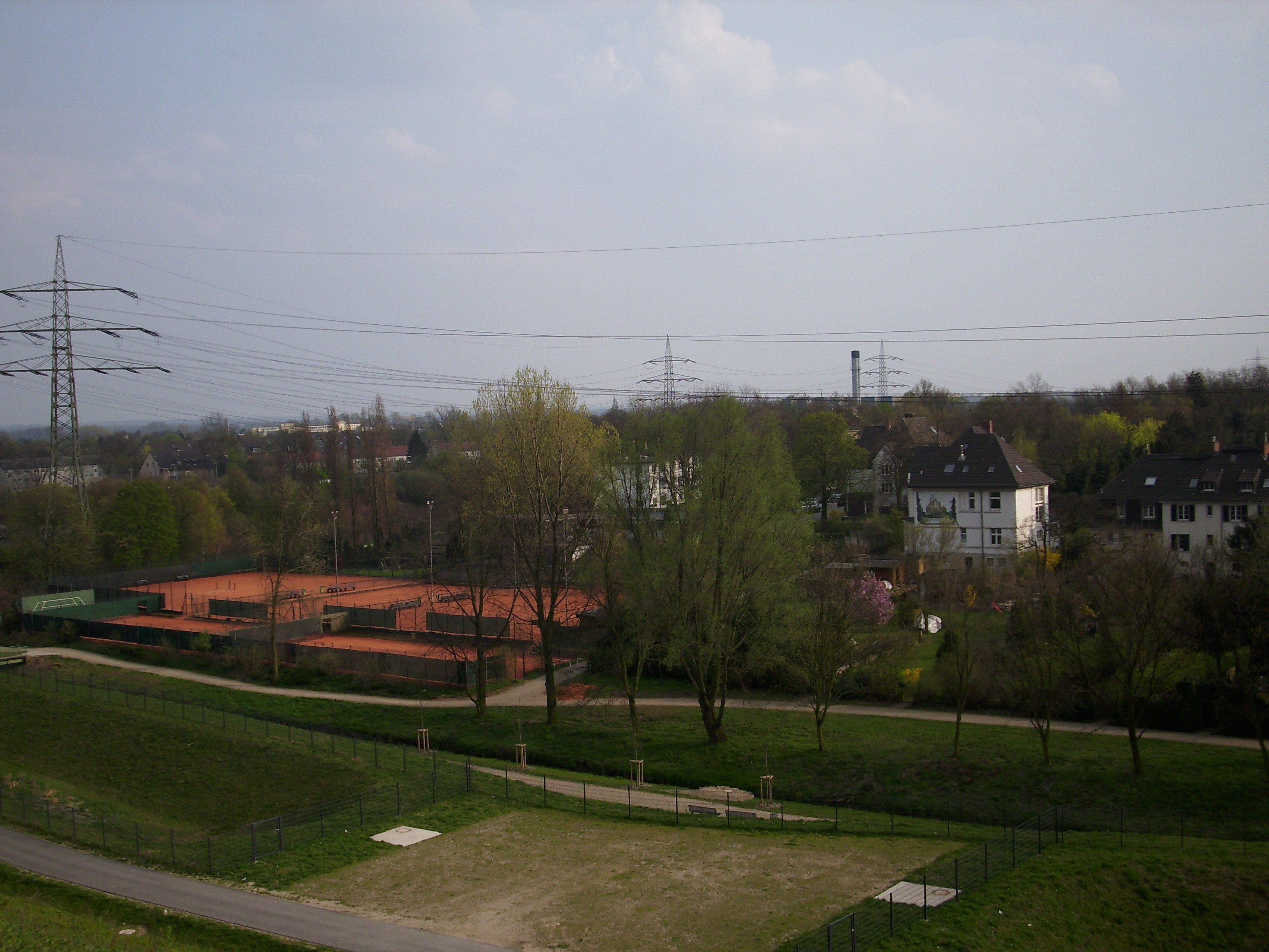 tenniscourts of the “Tennis-Club Duisburg-Süd” at “Angerpark” (near “Heinrich-Hildebrand-Höhe”)